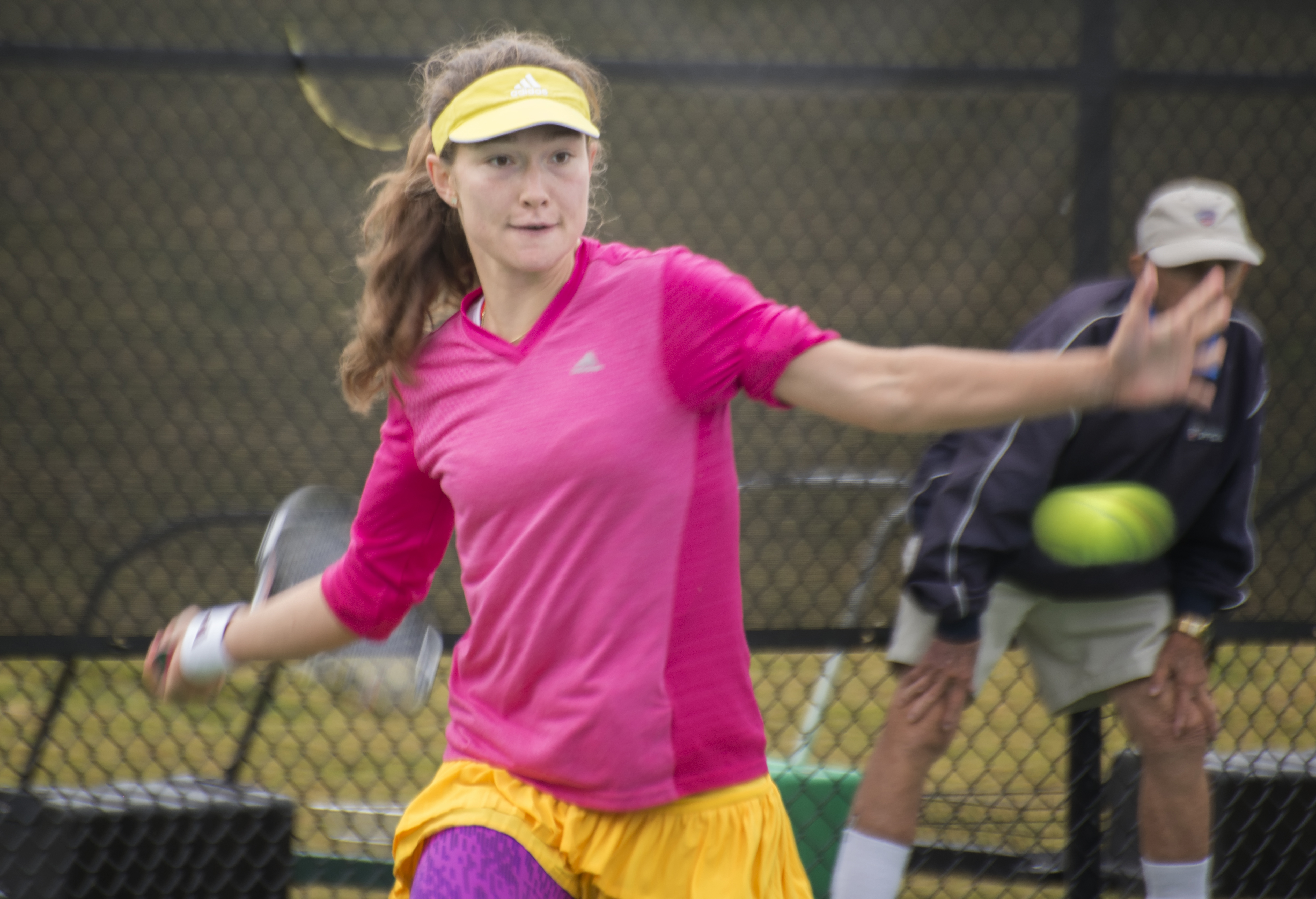 Angelina Gabueva at the 2014 Rock Hill Rocks Open